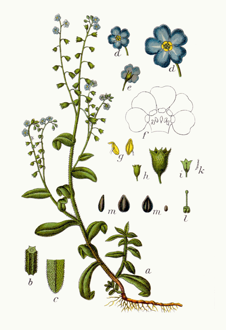 Myosotis scorpioides subsp. scorpioides L., syn. Myosotis palustris Hill. s. str. , nom. illeg. (nom. superfl.) Original Caption Sumpf-Vergissmeinnicht, Myosotis palustris